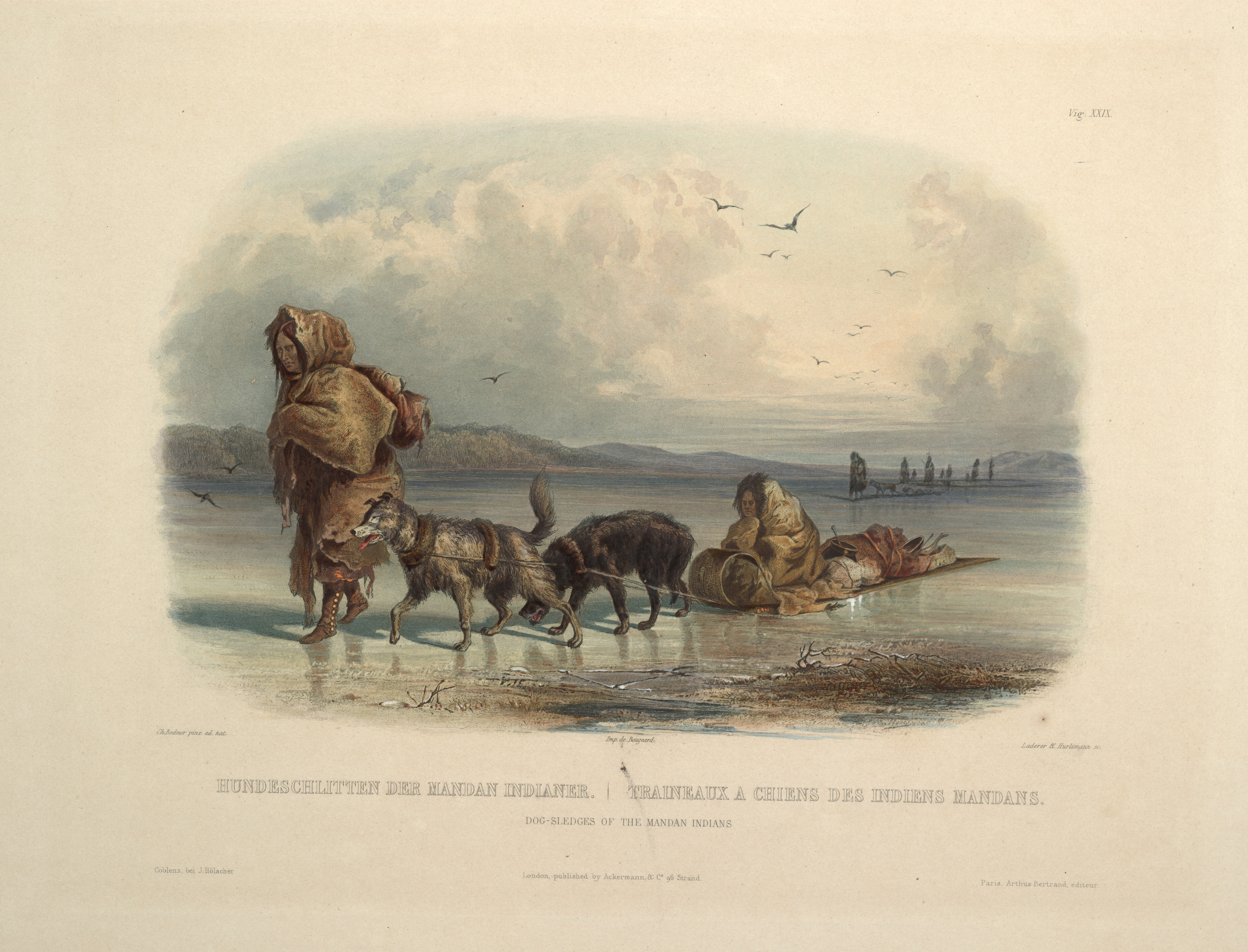 Dog sledges of the Mandan indians